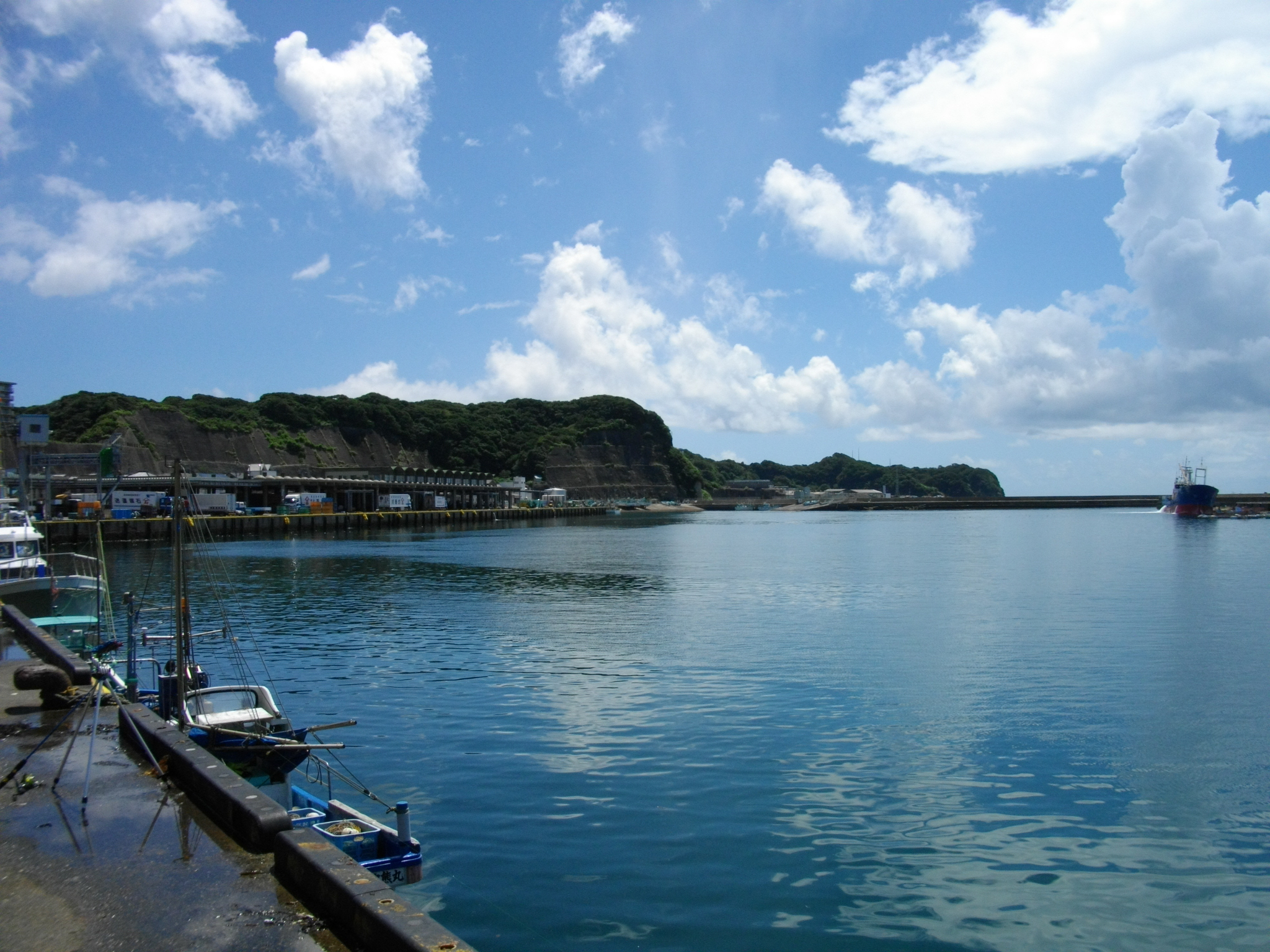 Chiba Katsuura Port